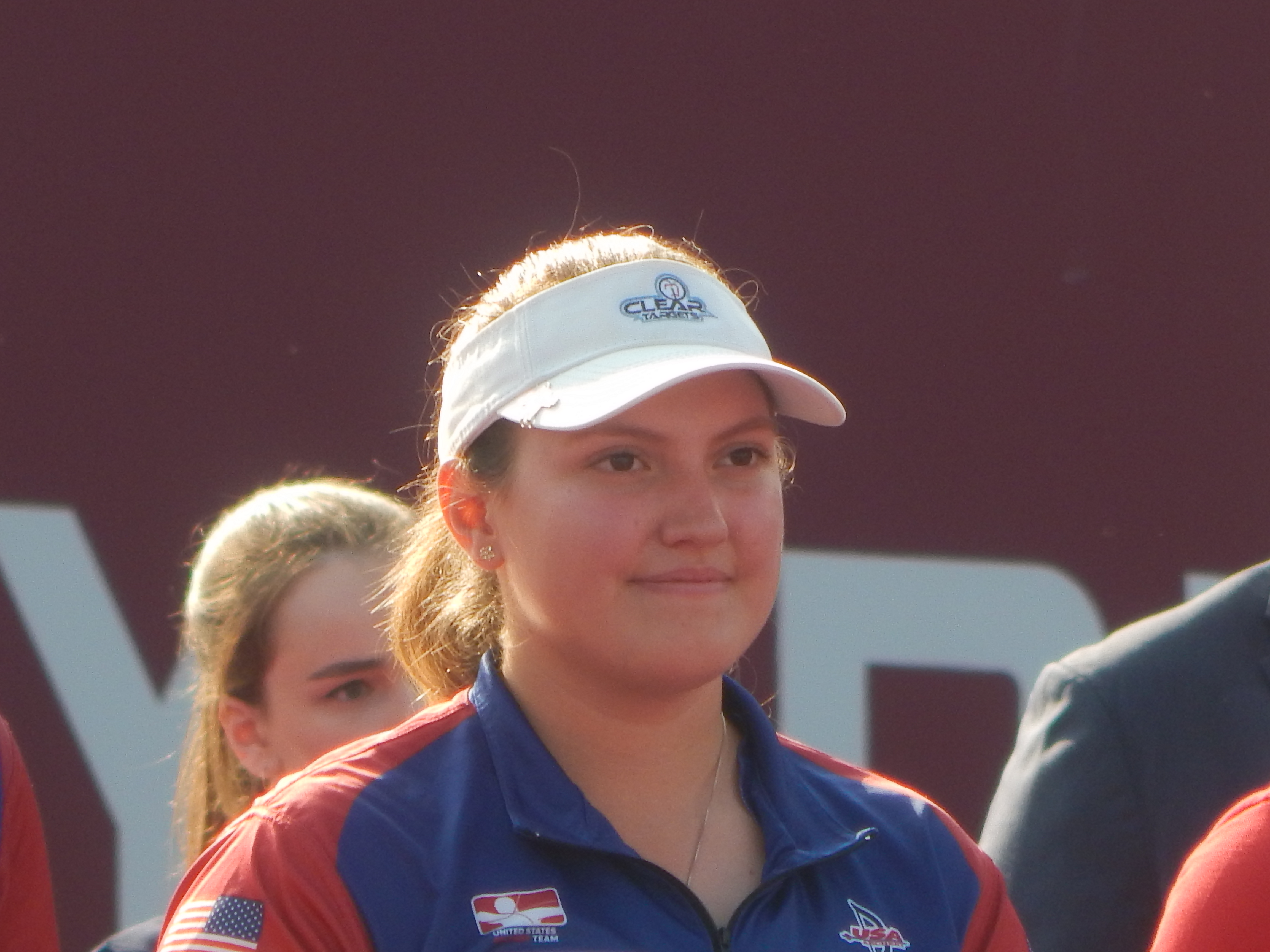 2019 Archery World Cup Final in Moscow. Mixed Compound